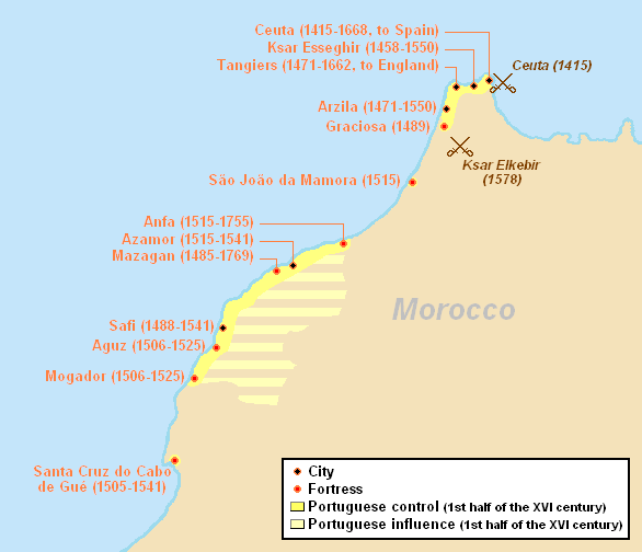 Portuguese possessions in Morocco, 15th-18th century